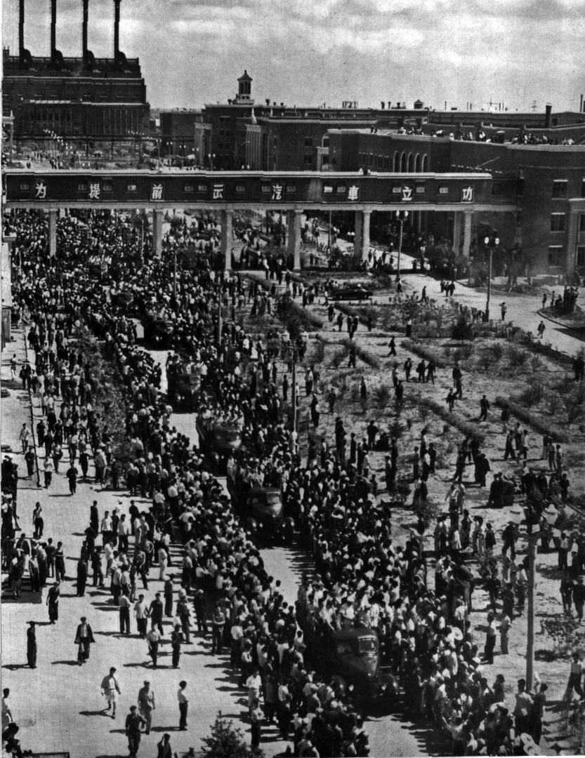 First Automobile Works' celebrating their first products.中文（中国大陆）: 中国人民的骄傲 我国新建的长春第一汽车制造厂在1956年7月试制出第一批解放牌汽车，9月份开始大量生产。这是第一汽车制造厂的职工在欢庆第一批汽车出厂。